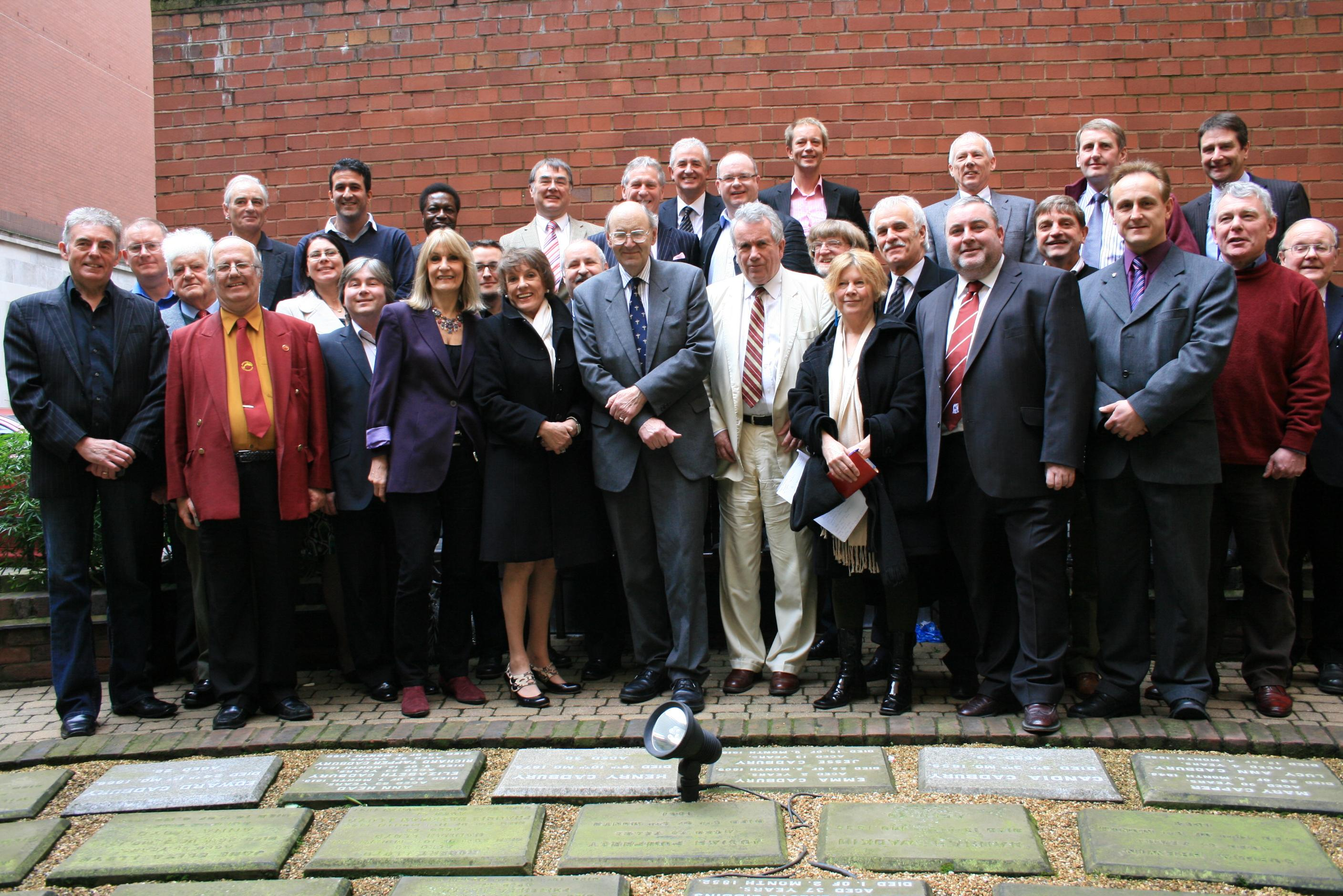 Independent Network Workshop. A number of Independent PPCs stand for a photo opportunity.